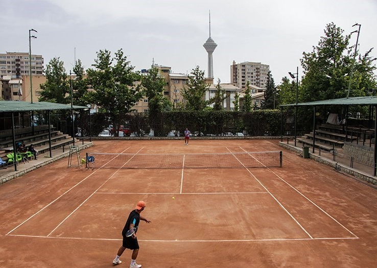 Shahrak-e Gharb